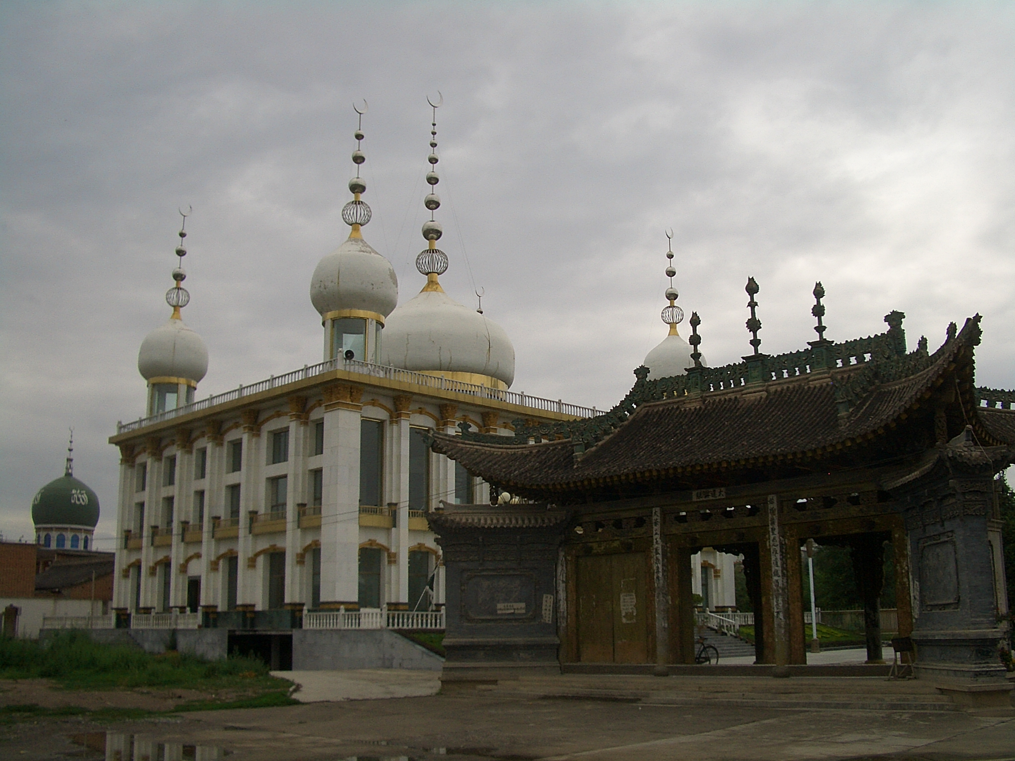 Huasi Gongbei in Linxia City. Includes Ma Laichi's Mausoleum, a mosque, an ablutions block, etc